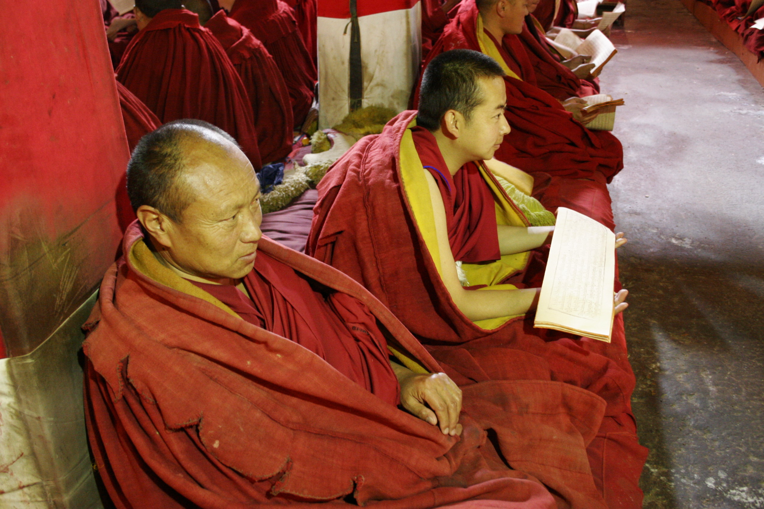 Colin Nisbet took this photograph on April 14, 2006 at the Sera Monastery, Lhasa, Tibet. The monks are finishing up their afternoon meditation.